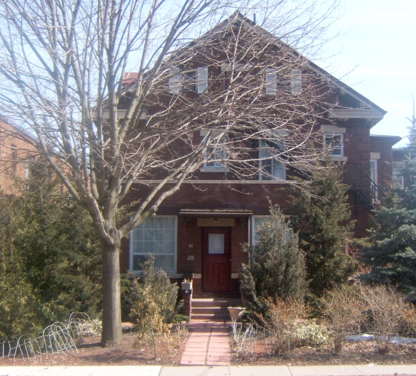 Side of the House of Doctor Forbes Godfrey from Stanley Ave (the front of building on Albert Ave is now hidden by an apartment building)